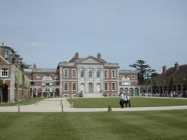 Hinton Admiral House forecourt and entrance garden terrace. The manor of Hinton Admiral was purchased in 1709 by Sir Peter Mews, MP for Christchurch and nephew of the Bishop of Winchester. In 1719 he married Lydia Gervis, and in 1720 built the house. The architect is unknown. On his death the estate passed to Lydia's sister who married William Clarke. The house was damaged by fire in 1777 and William's grandson, Joseph Gervis Clarke, restored it. In 1793 the then-owner enlarged the central block by adding a small addition on the north and south sides. The garden terrace was built in 1900, together with the ballroom in the existing structure of the house, which was designed by Peto a well-known architect who lived at Ilford Manor in Wiltshire. Since 1990, the house has been refurbished and is still lived in by the family. The garden is also gradually in the process of being re-established.